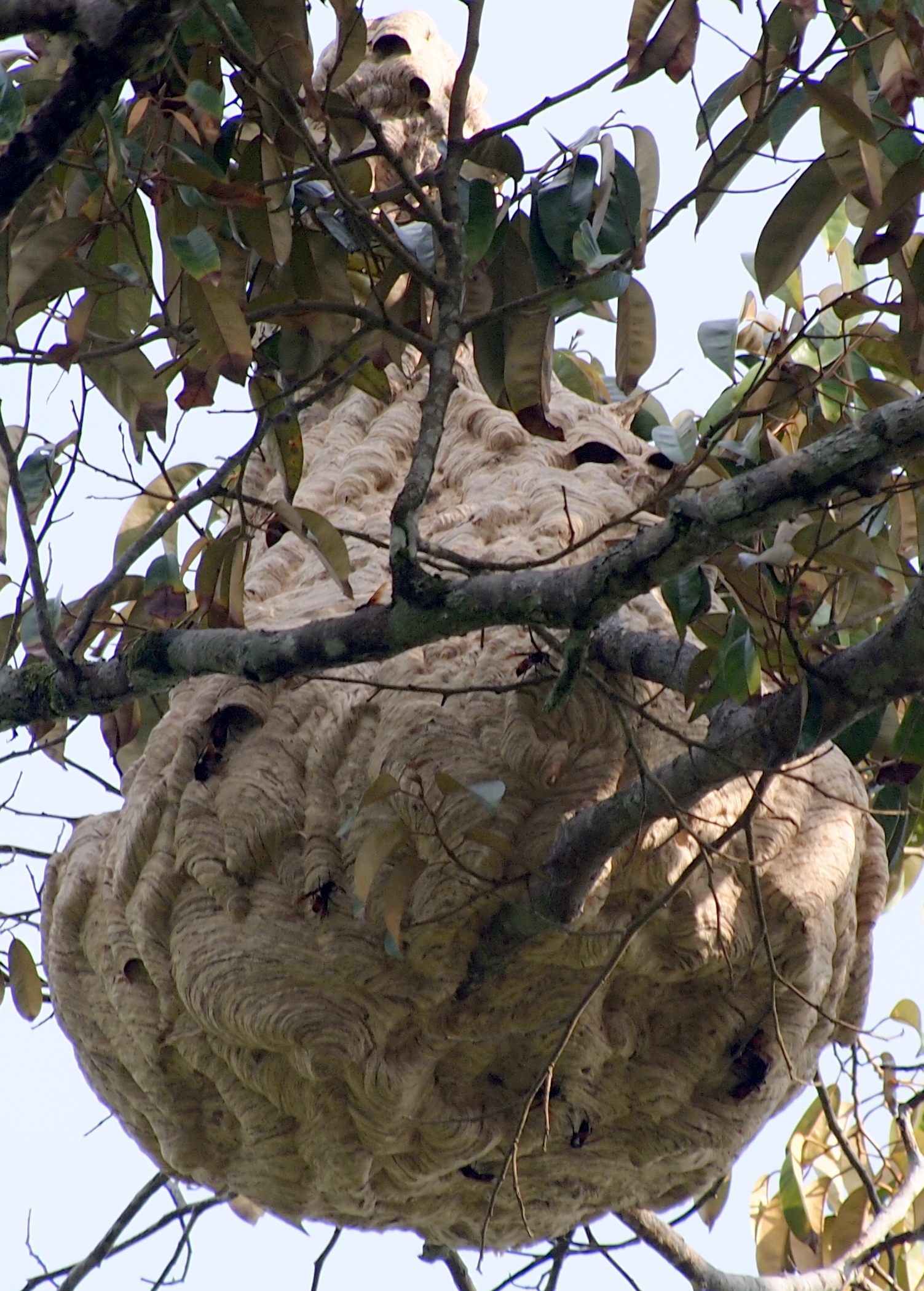 Nest of Asian predatory wasp (Vespa velutina)